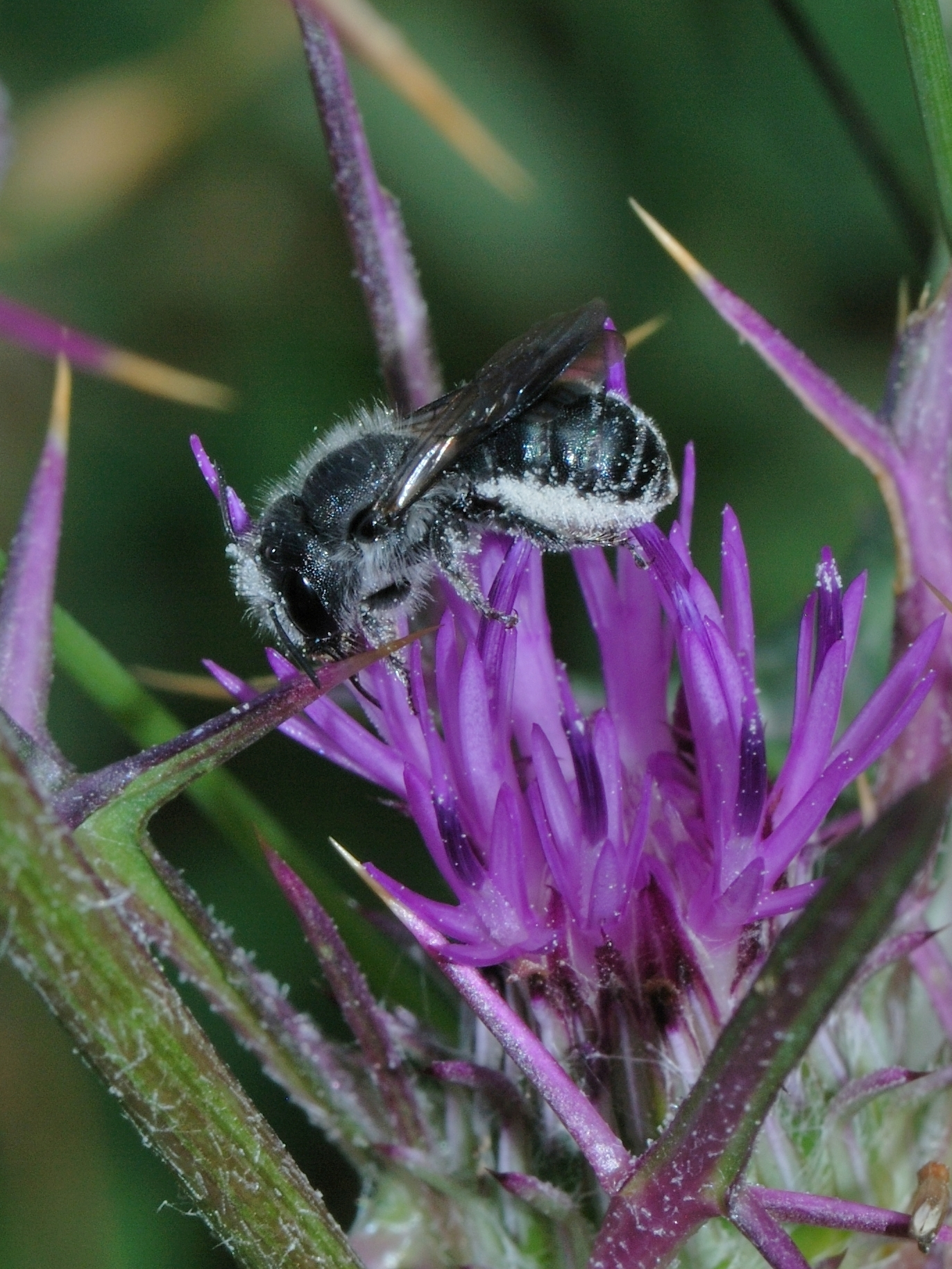 Osmia niveata, female foraging on Notobasis syriaca, Mount Carmel, Israel, May 9, 2011.